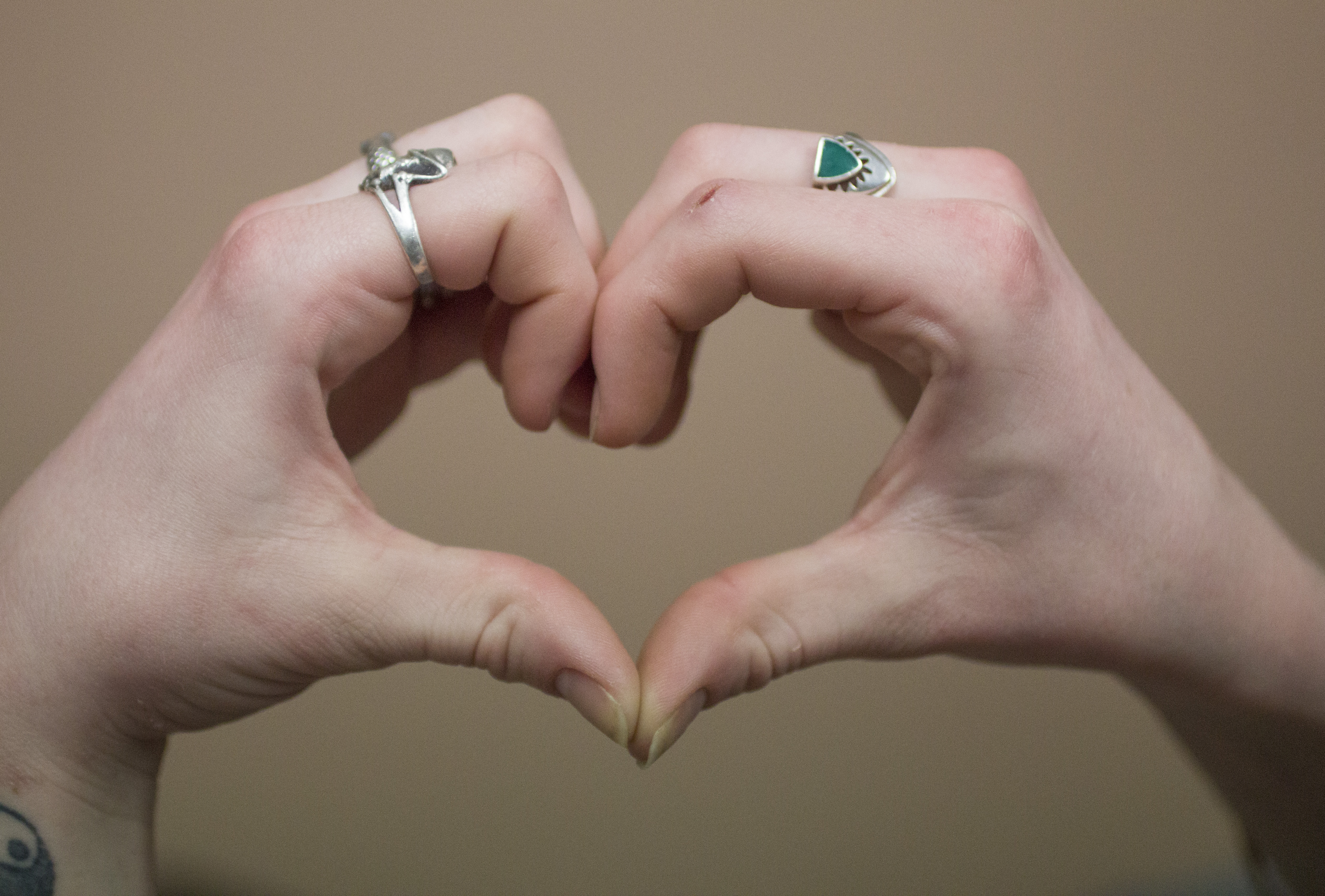 Photo of the hand gesture for a heart.